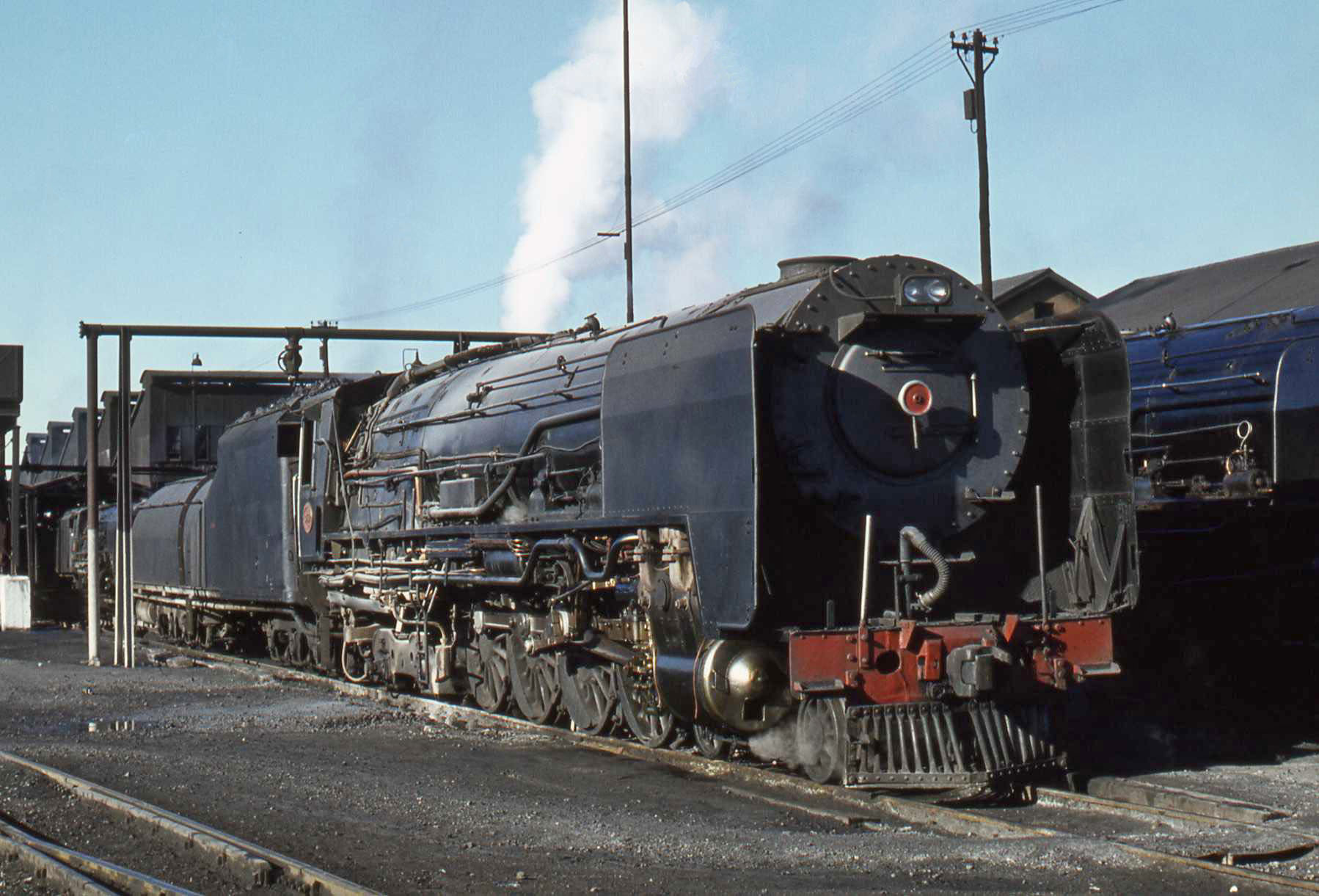 SAR Class 25NC 3464 (4-8-4) NBL Location: De Aar